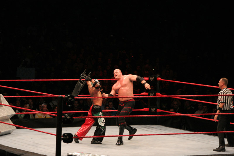 Kane Battles Rey Mysterio in Milan,Italy